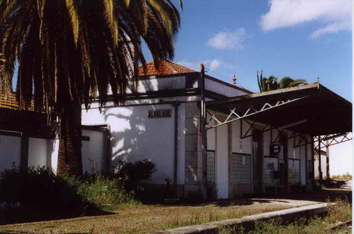 Train Station of Avalade